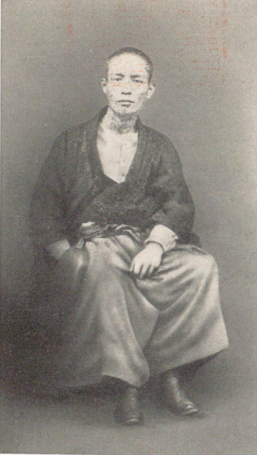 Natsume Soseki as a student of First Higher School (June 1886).